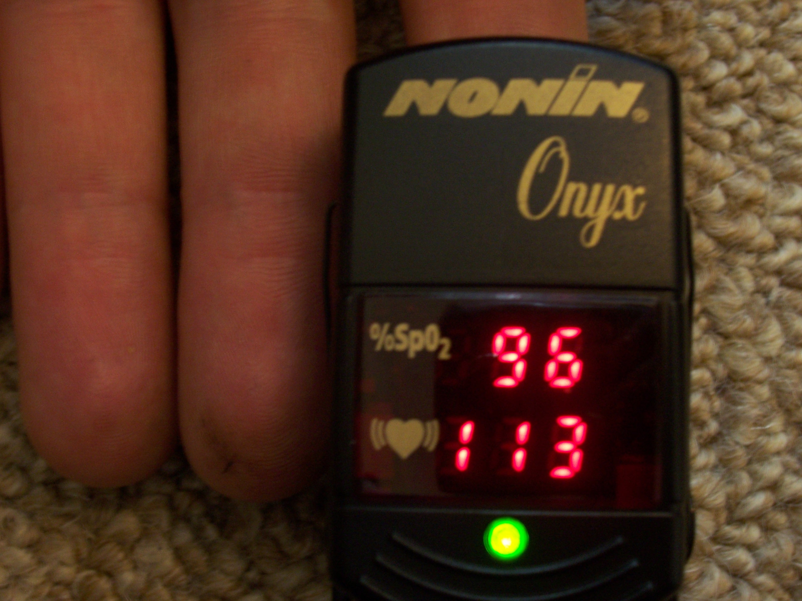 Pulse Oximeter